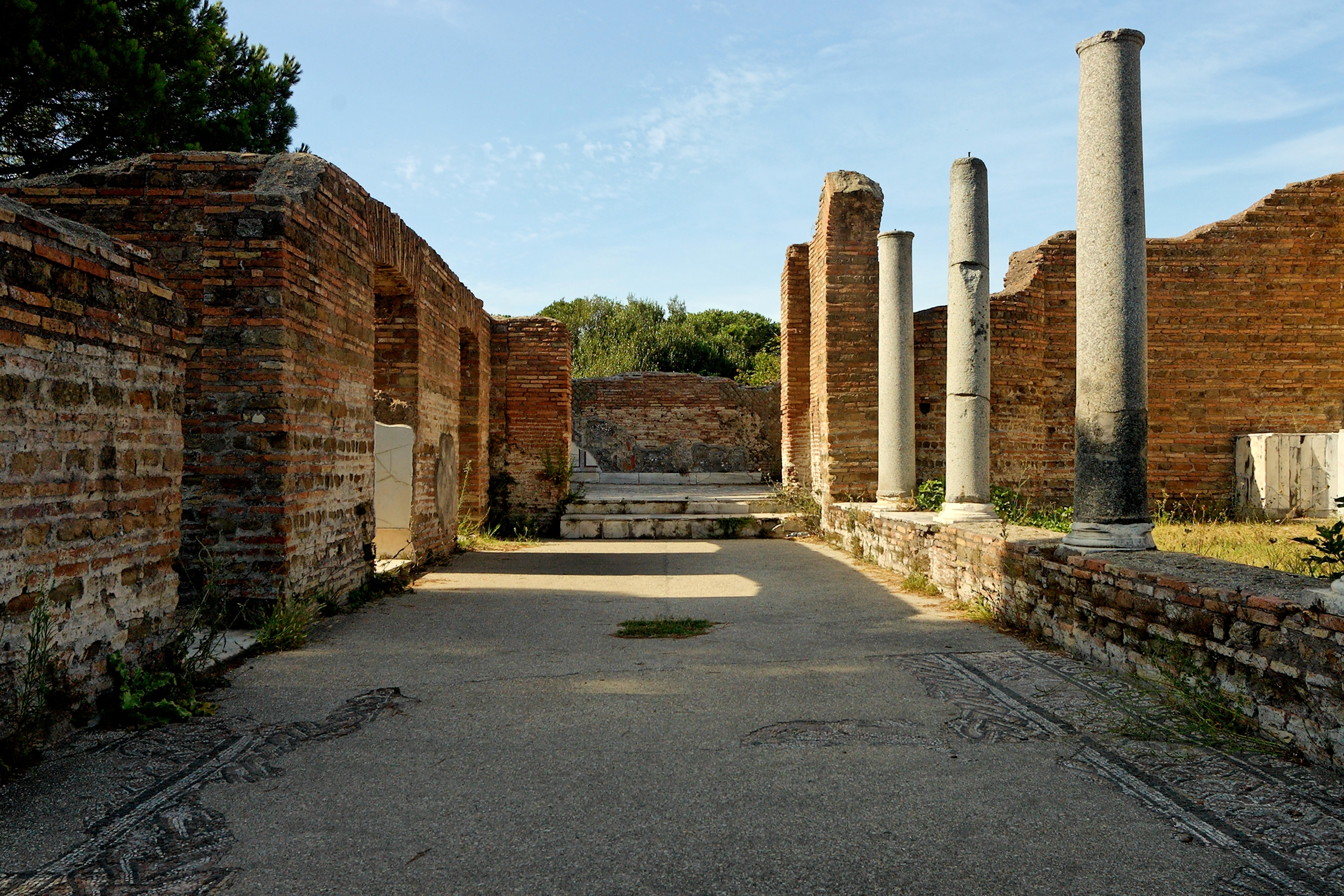 Room B of the House of Cupid and Psyche (regio I, insula XIV). Ostia Antica, Latium, Italy.